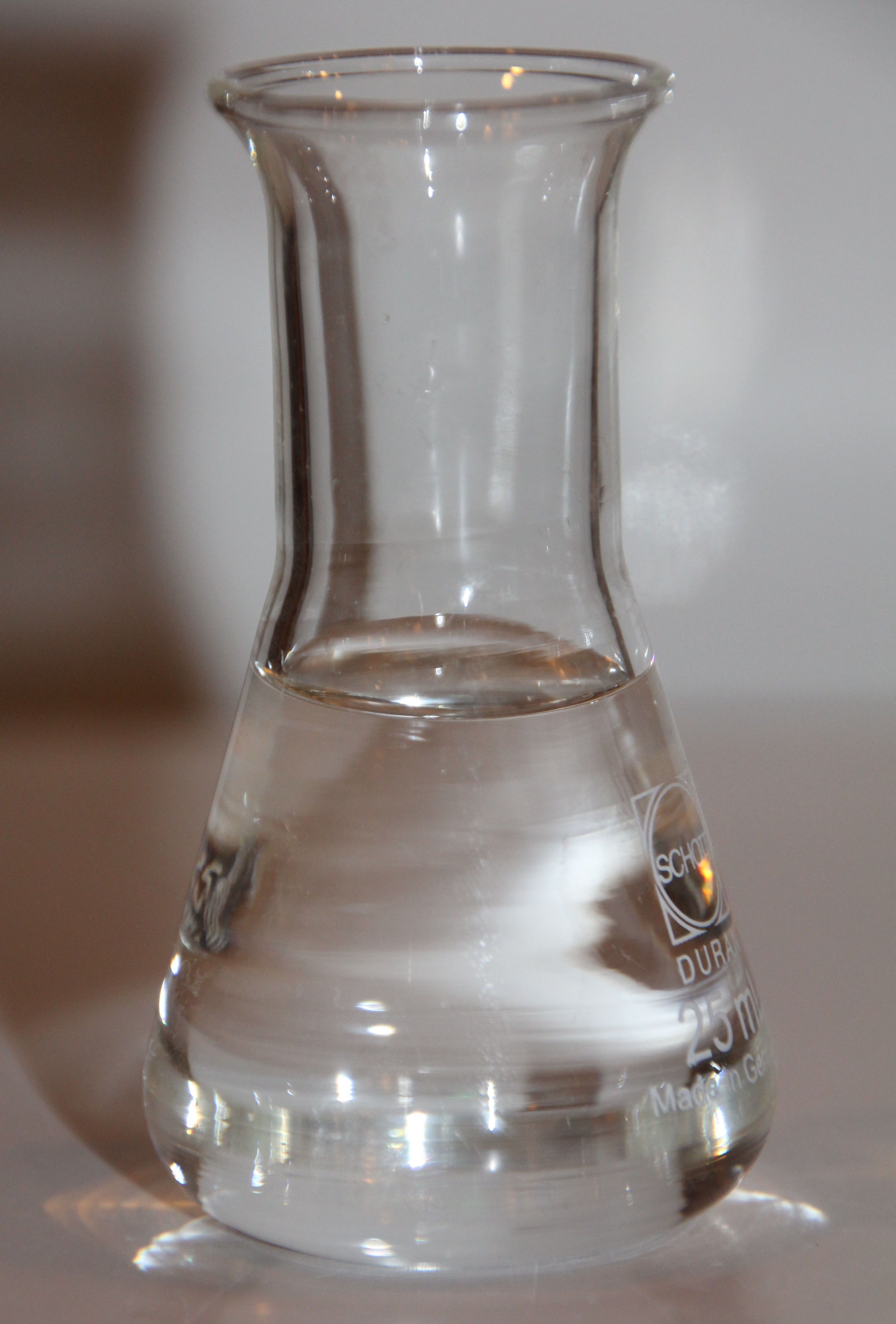 Sample of Glycerine